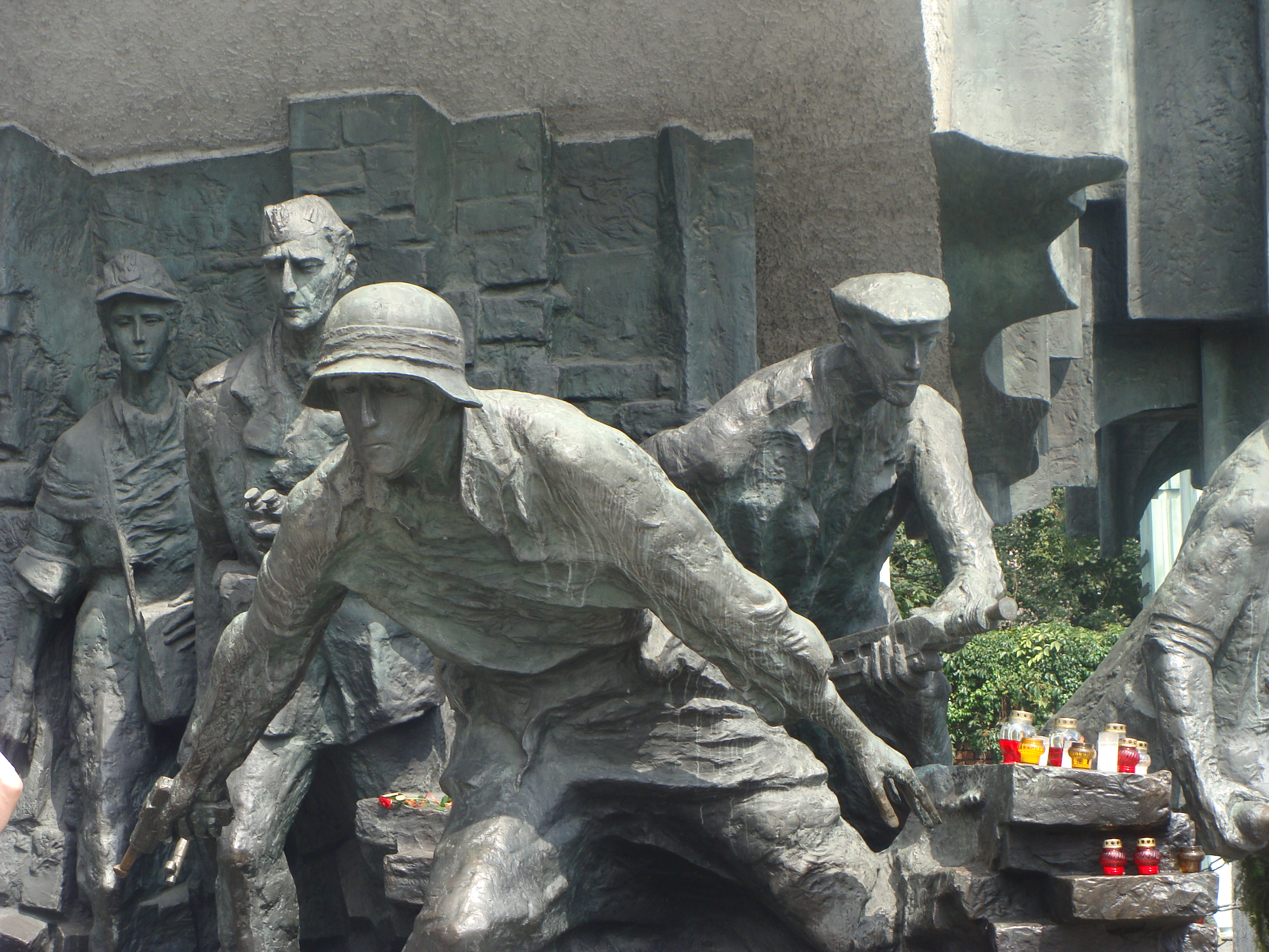 Warsaw Uprising Monument